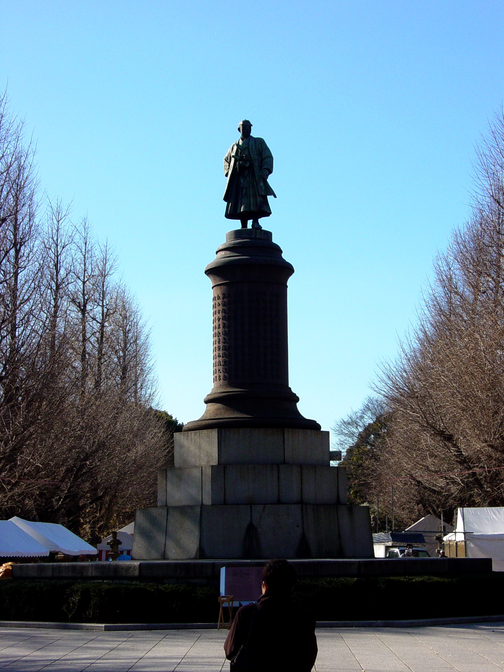 Statue of Omura Masujiro, Vice-Minister of War during the Meiji Restoration. This statue was created by Ōkuma Ujihiro(1856 - 1934) and was made public in 1893.